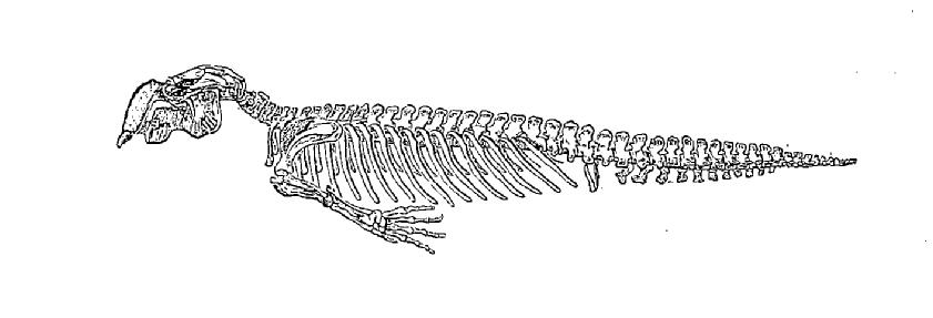 Skeleton of Dugong dugon